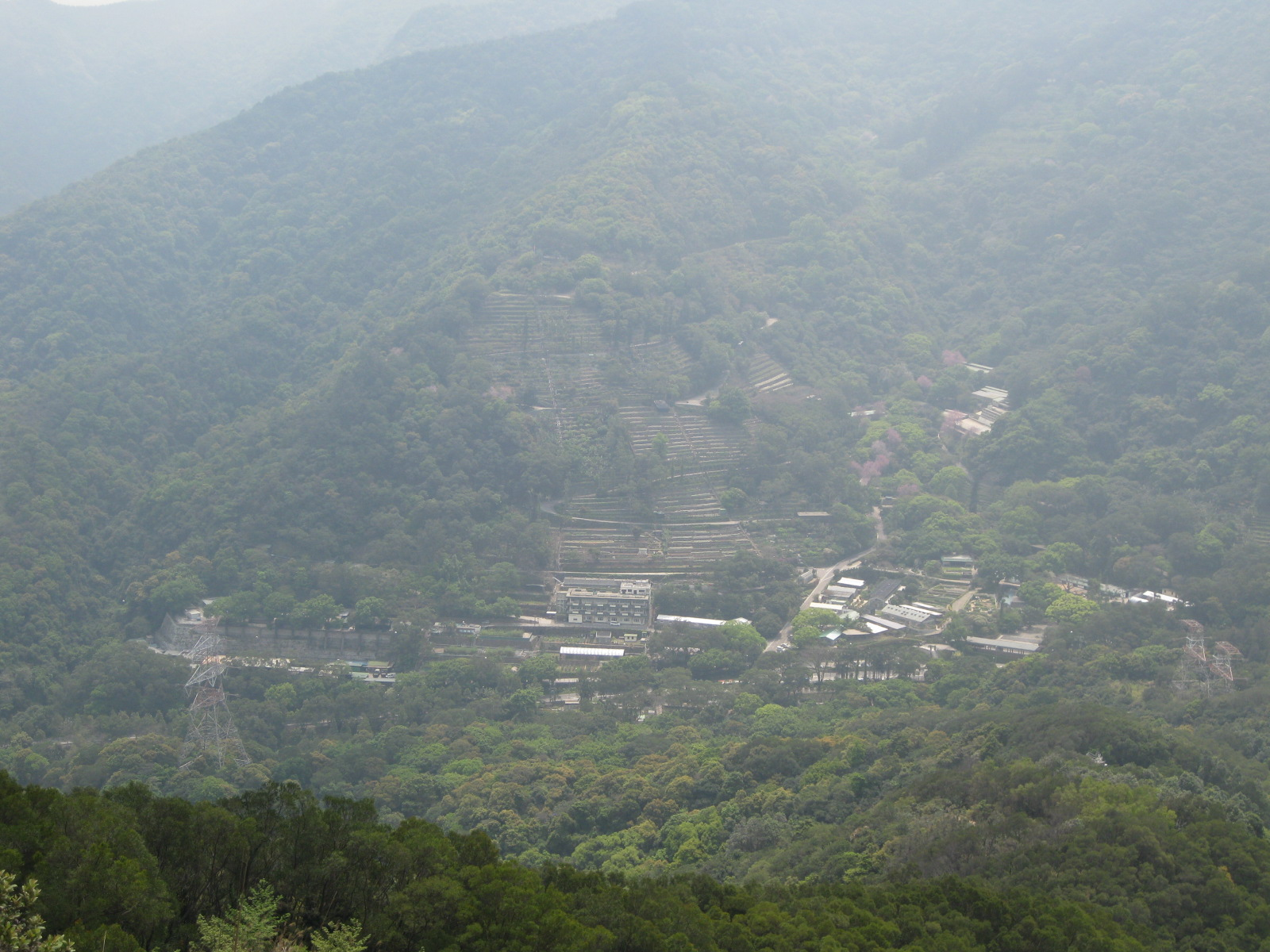 Kadoorie Farm and Botanic Garden